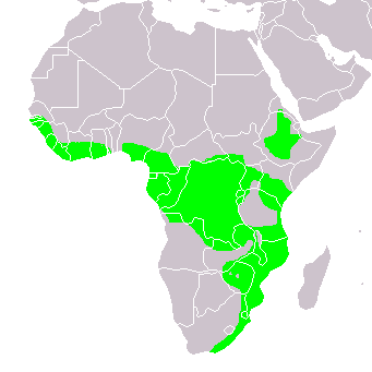 Stephanoaetus coronatus, area